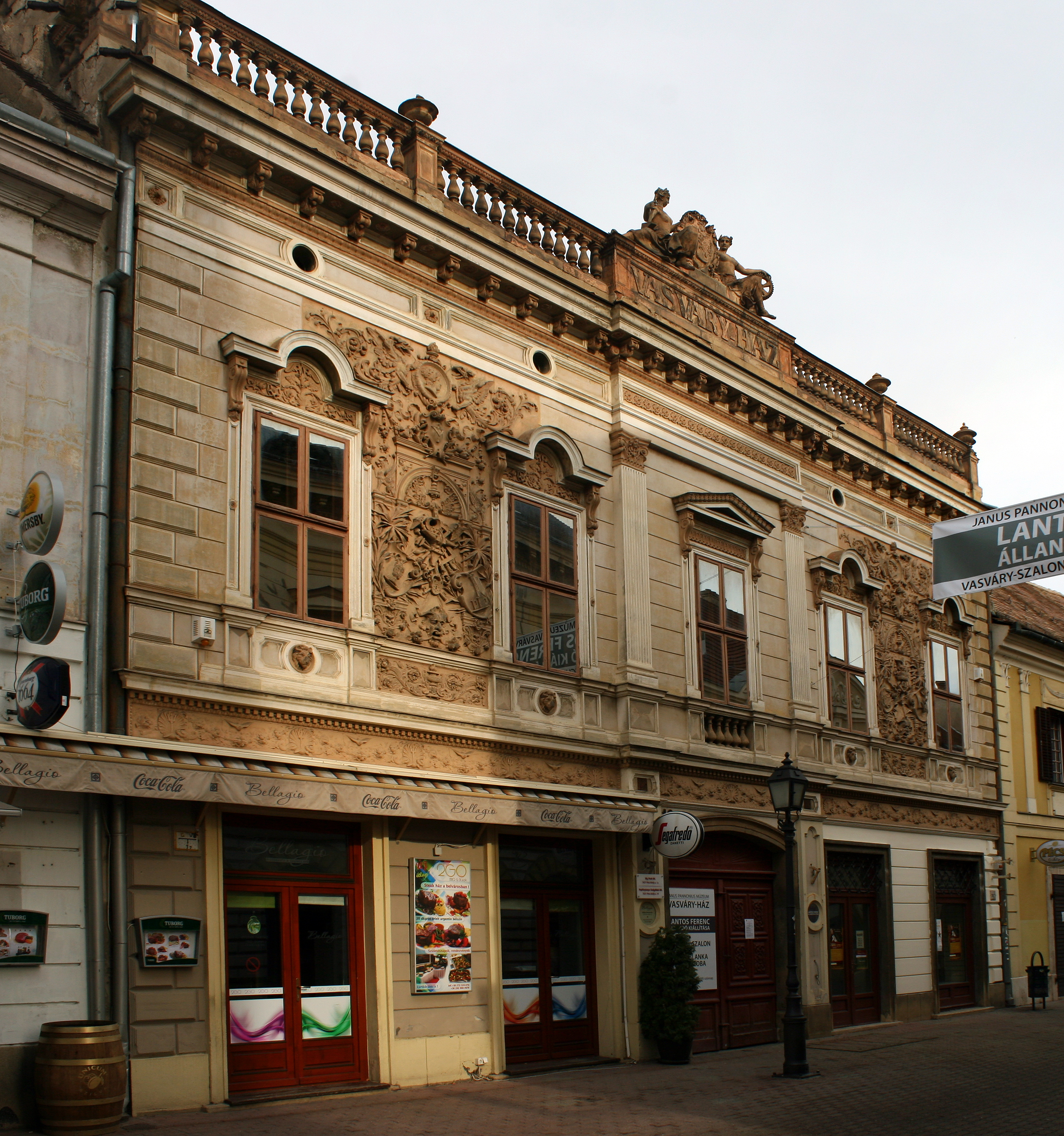 Vasváry House in 19 Király Street, Pécs